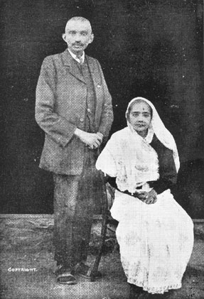 Gandhi and his wife Kasturbhai in Johannesburg, South-Africa, before their departure for England, July 1914.